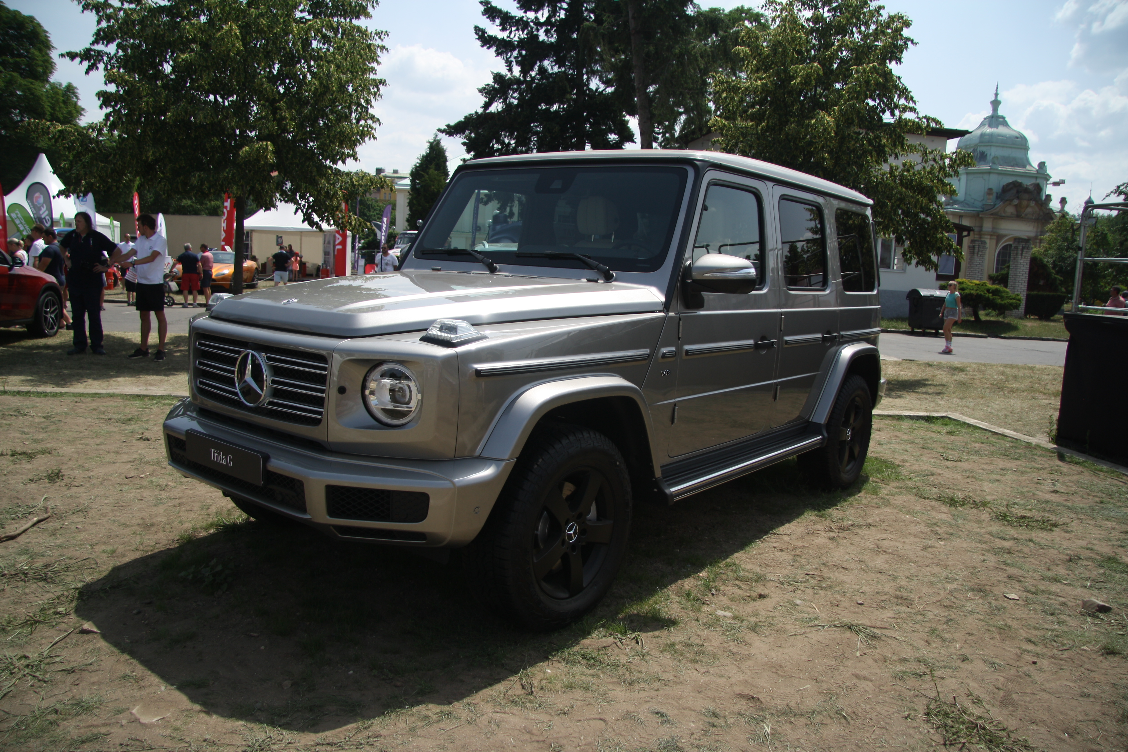 Mercedes Benz G 2018 at Legendy 2018 in Prague.